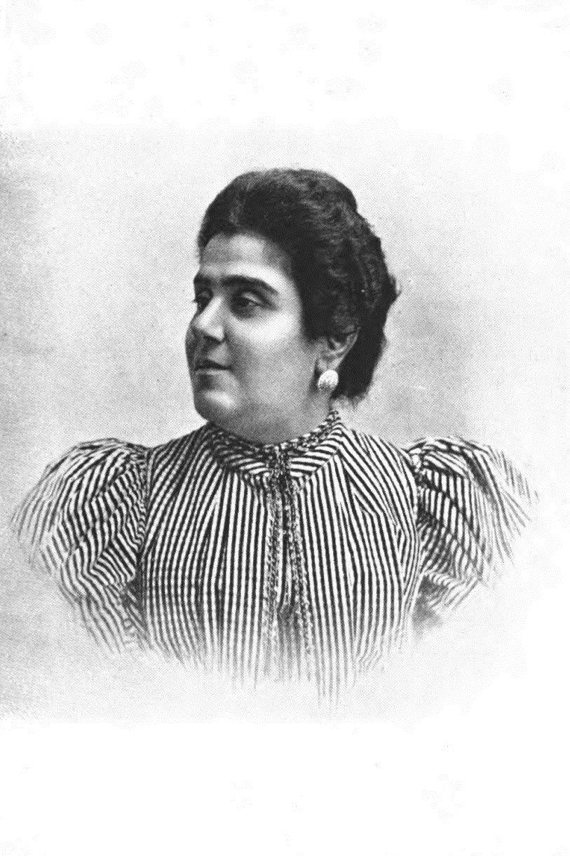 Matilde Serao